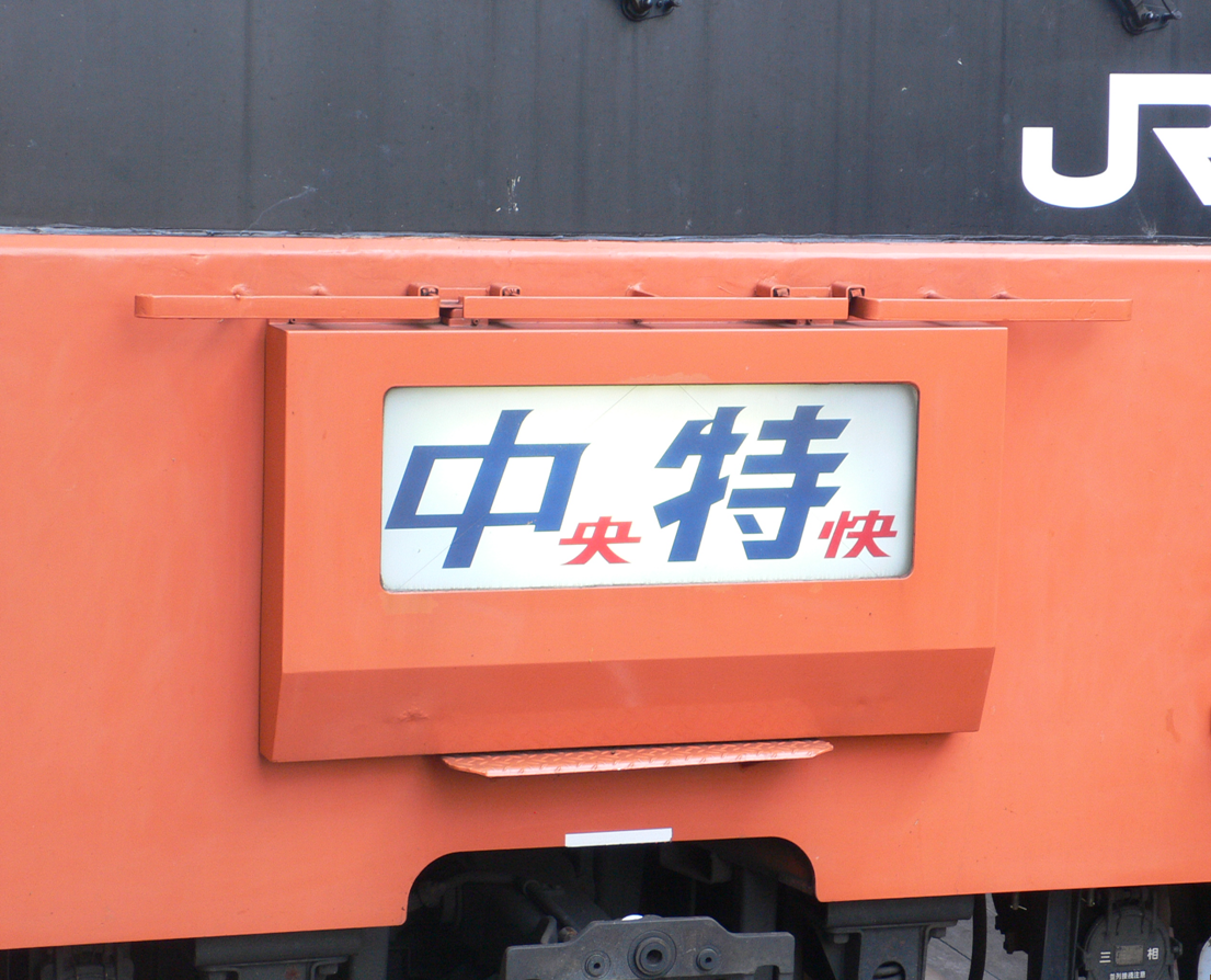 The place for train type signs on JNR 201 series (serving Chūō Rapid Line system)